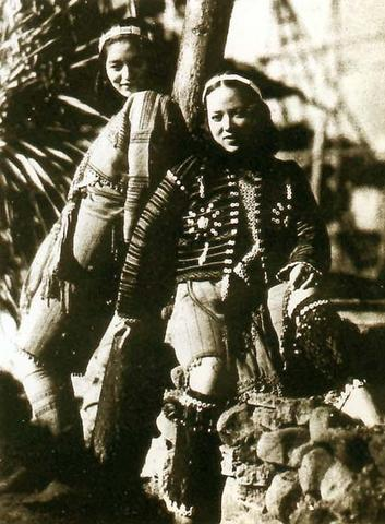 Scene from The Bell of Sayon , a Man'ei produced movie in Taiwan, starring Ri Kōran). The story is based on the real tragic accident of Sayon Hayon, who was a girl from the Atayal tribe.